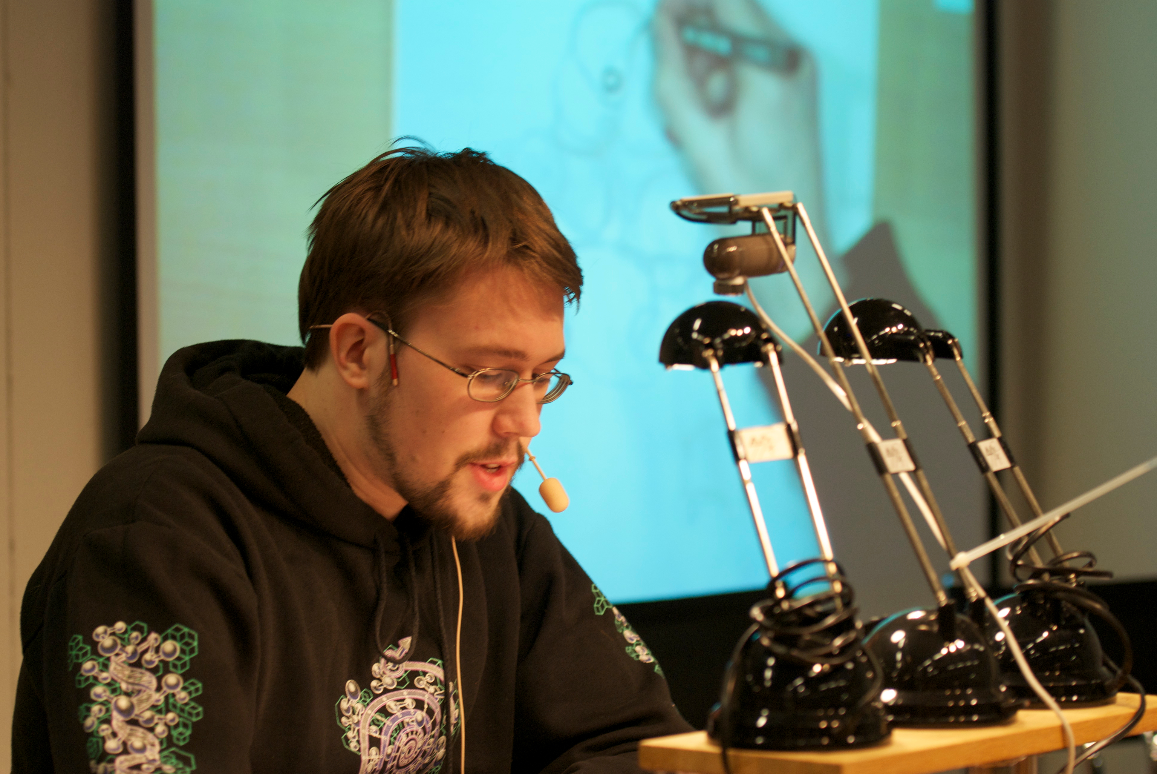 Jesper Nordqvist at the Göteborg Book Fair 2011.